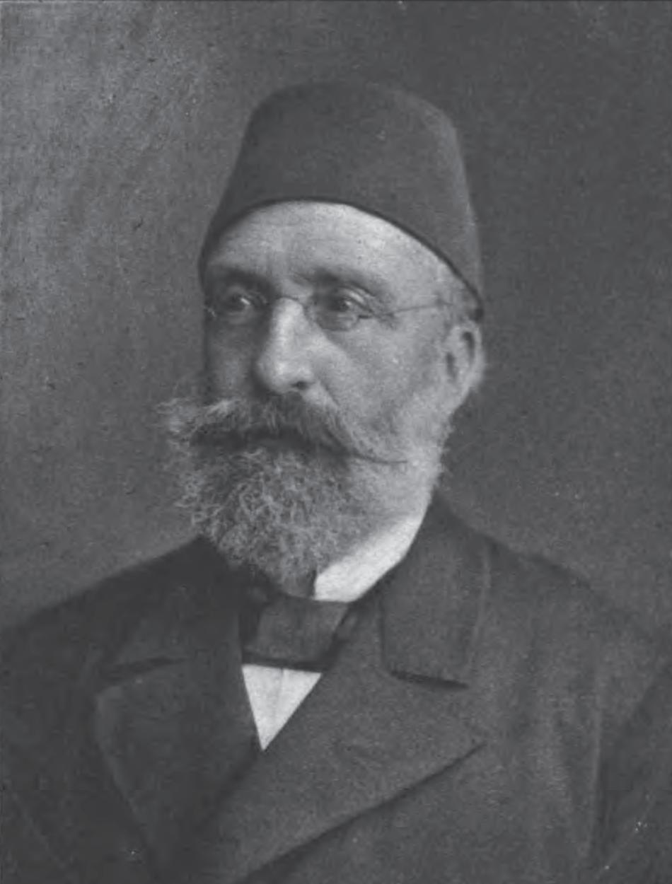 Midhat Pasha. Ottoman statesman and prime minister. This photograph was taken from a book published in 1909 (prior to 1923)